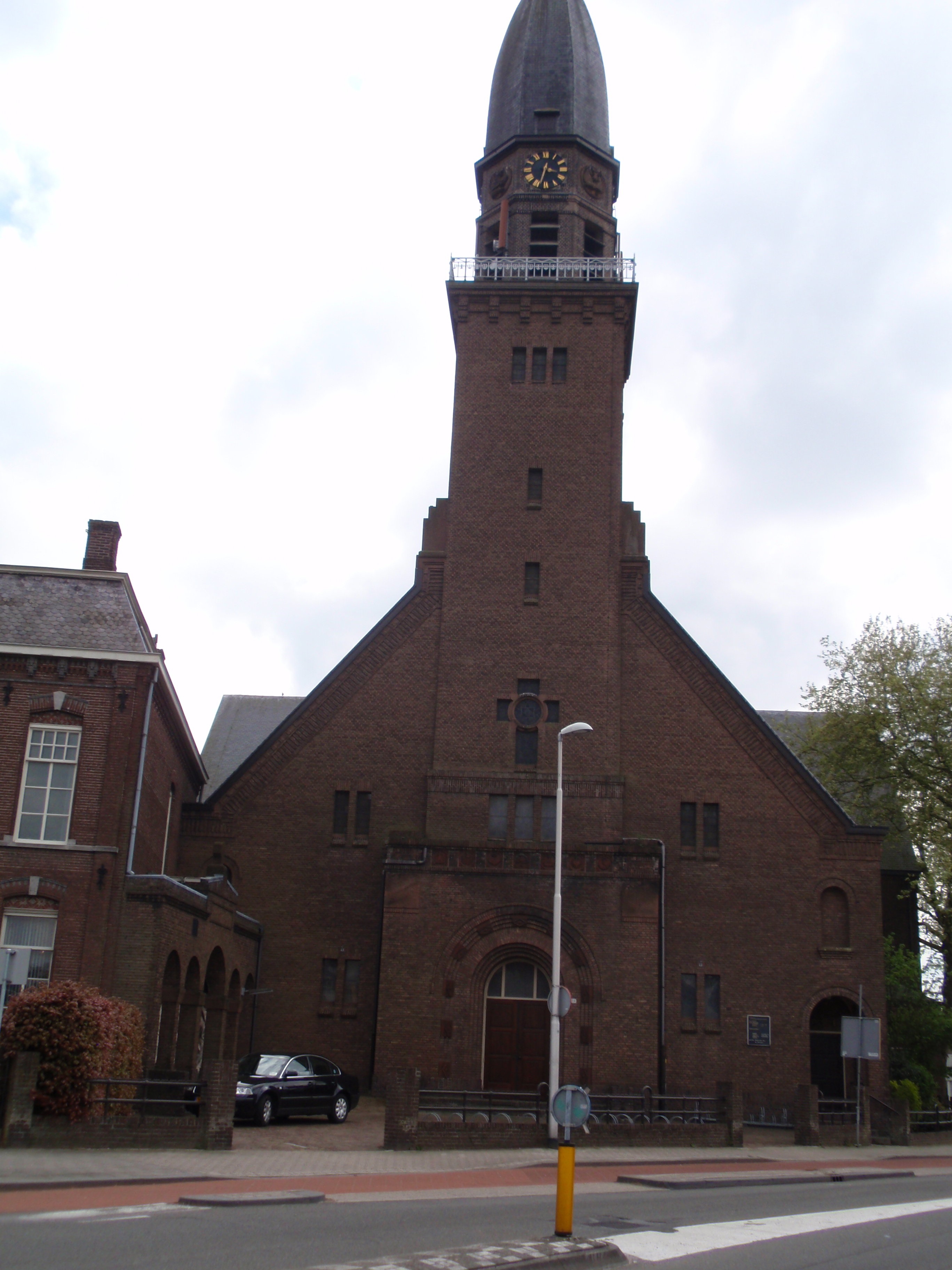 Korvelse Church - Tilburg